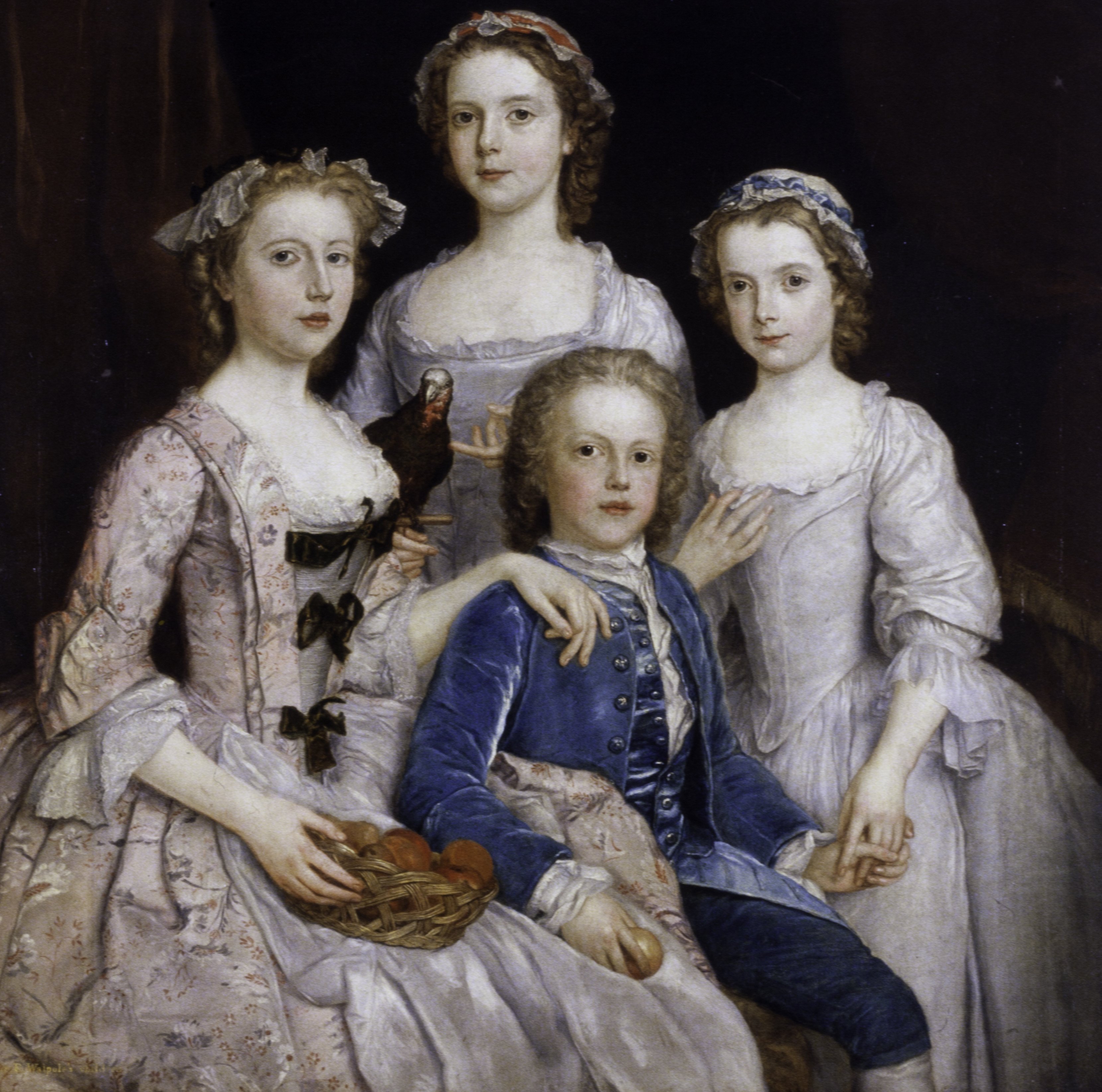 "The painting represents the four children of Sir Edward Walpole, all of whom can be easily recognized according to their ages. Laura, the eldest, married in 1758 the Hon. F. Keppel, Bishop of Exeter. Maria, the second, married in 1759 James, second Earl Waldegrave, and in 1766 the Duke of Gloucester (1736-1807). Charlotte married in 1760 Lionel, fifth Earl of Dysart (1738-1789). The boy, Edward, who became Colonel Walpole, died unmarried, aged thirty-one, in 1771. "The bird in the painting is a Cuban Amazon parrot, either imported, or the artist may have copied it from a book." (description from museum website)